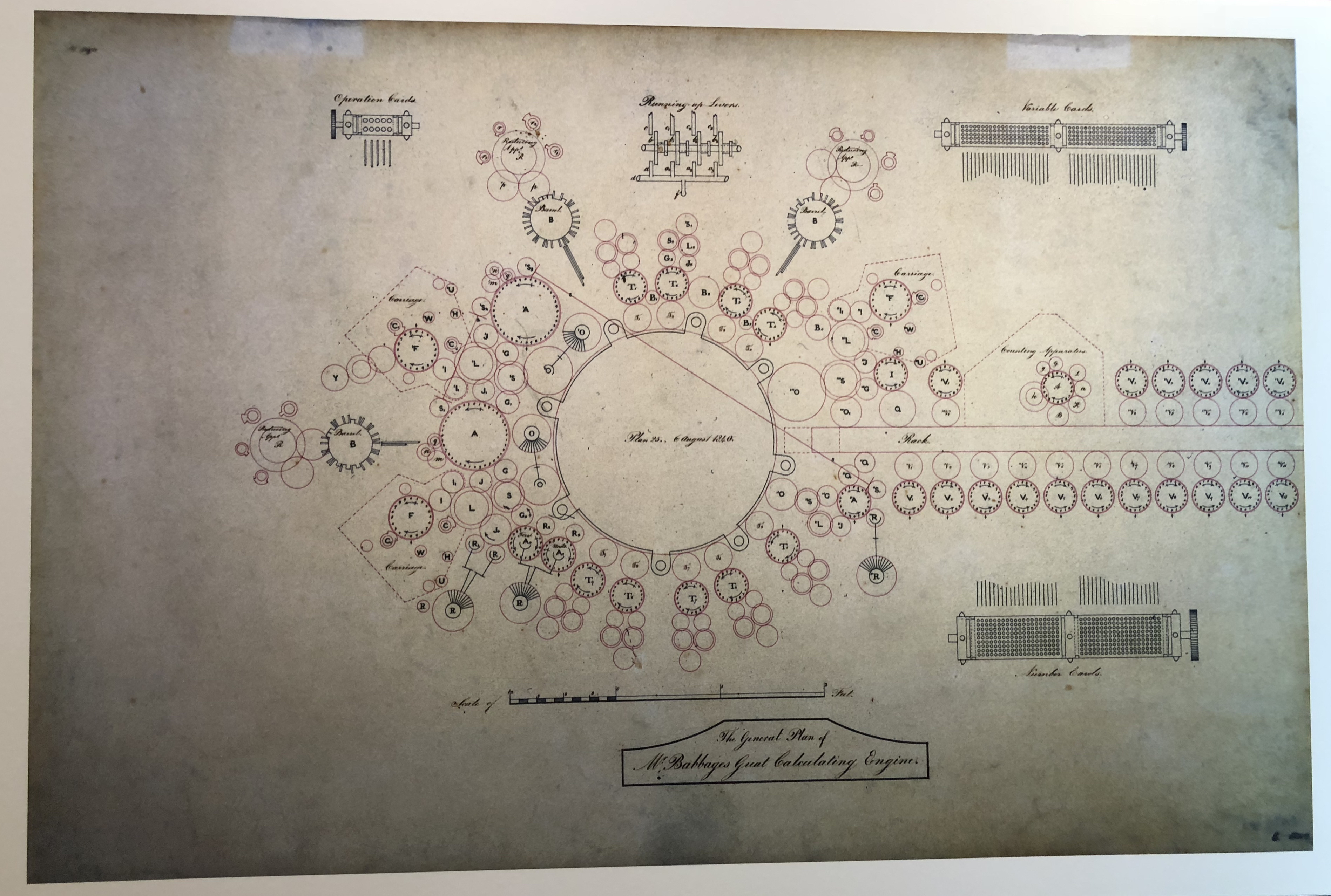 Photo of Babbage Analytical Engine Plan from 1840 at the Computer History Museum